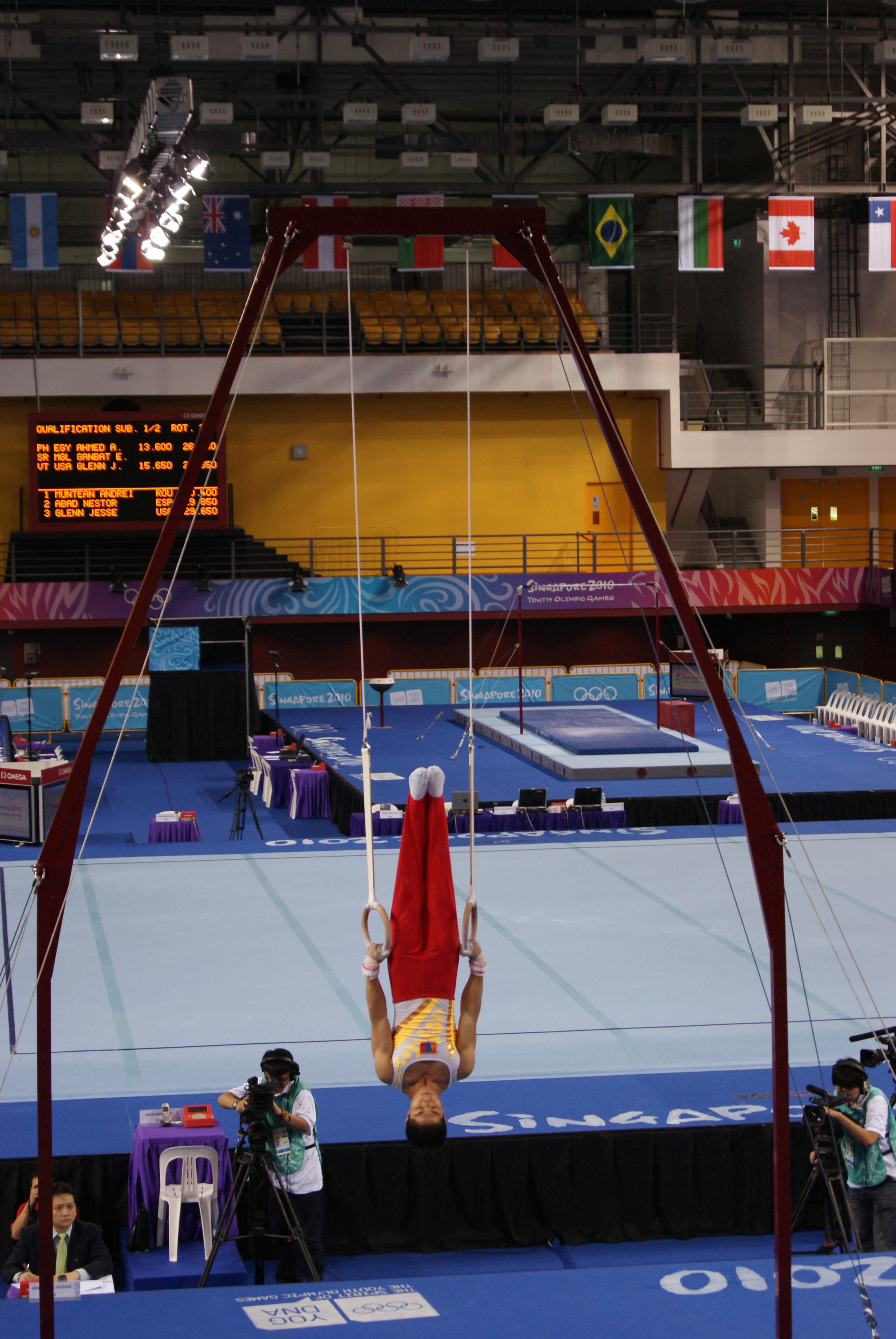 Mongolian gymnast Erdenebold Ganbatyn performing on the rings during Men's Qualification – Subdivision 1 of the artistic gymnastics competition at the 2010 Summer Youth Olympics at Bishan Sports Hall, Singapore.